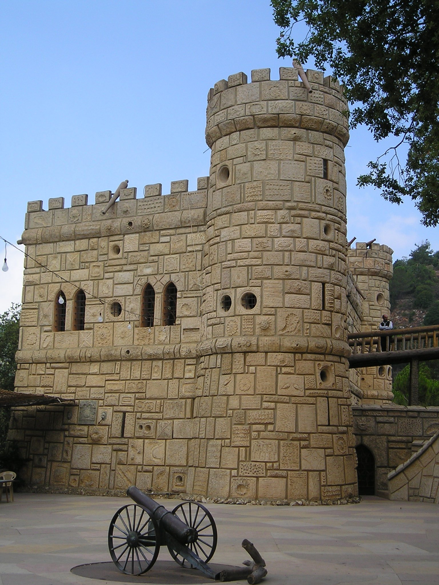 Moussa Castle near Deir al-Qamar, Lebanon - a view from Deir al-Qamar